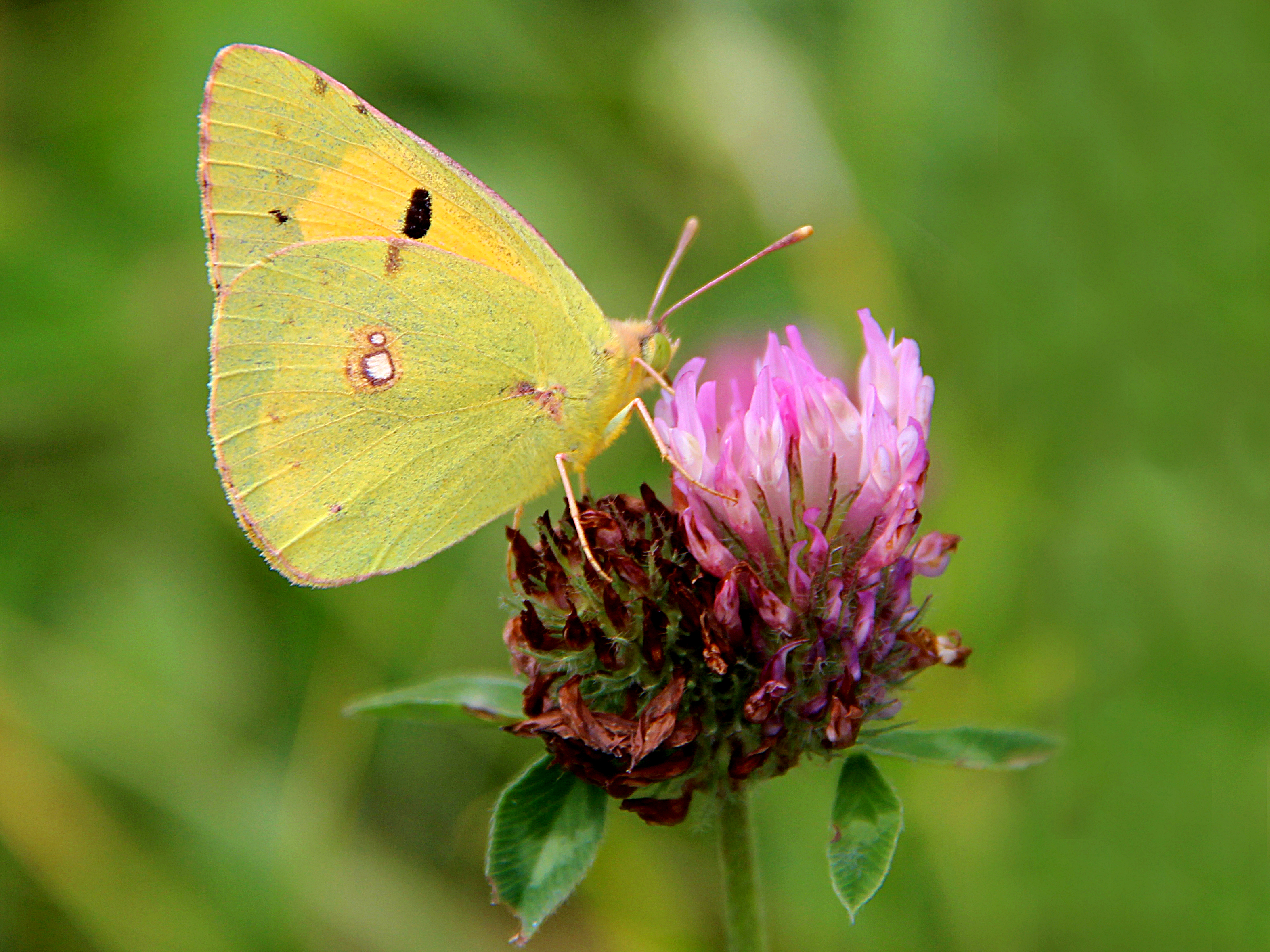 Dark Clouded Yellow (♂) - (Colias croceus) - Boussu-lez-Walcourt, (Belgium